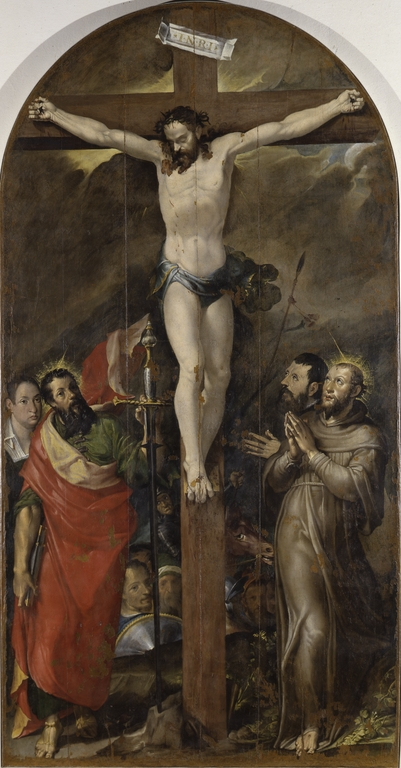 Crocifissione di Cristo con san Paolo, san Francesco d'Assisi e donatori